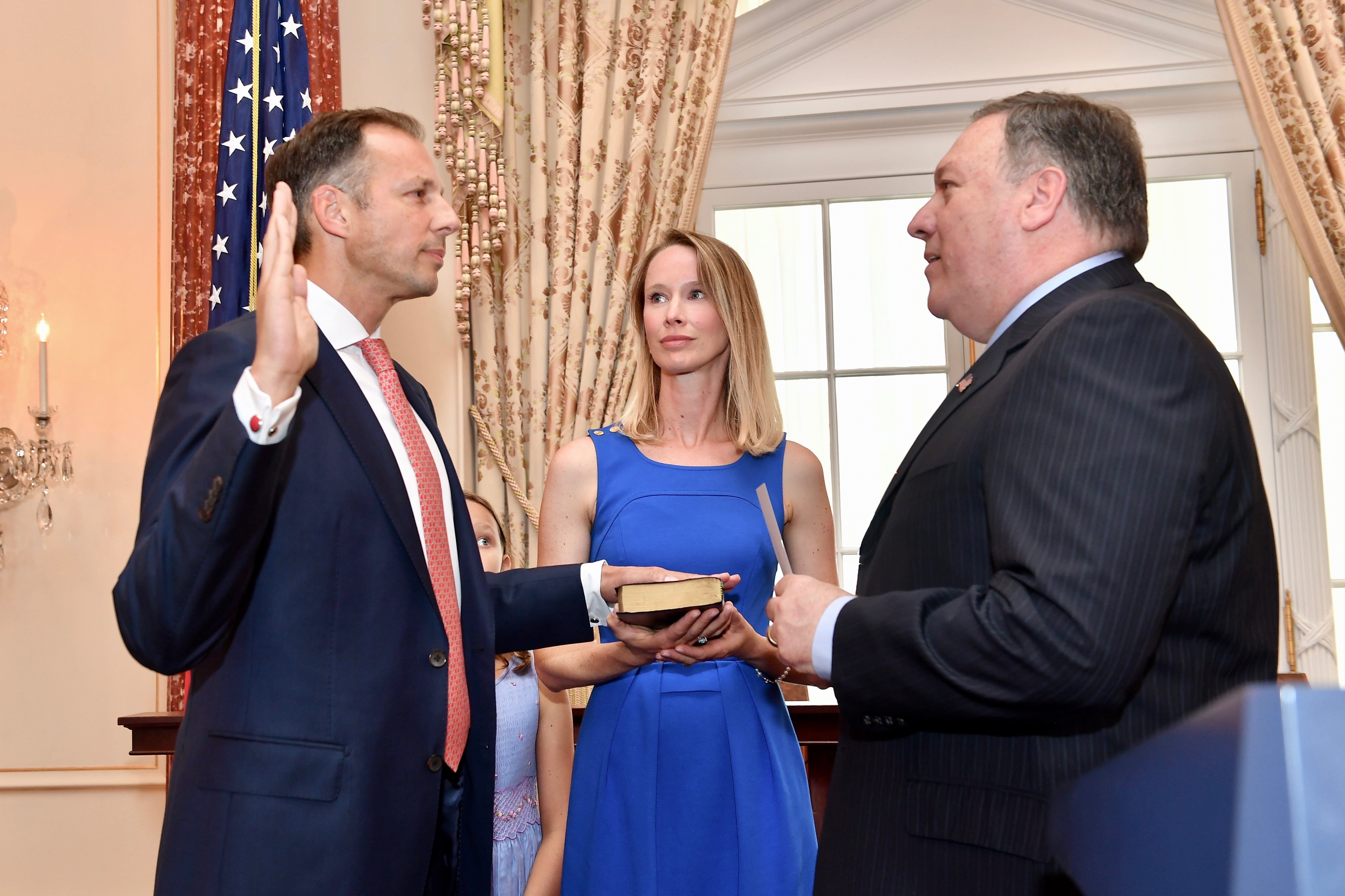 U.S. Secretary of State Michael R. Pompeo officiates the swearing-in ceremony for Francis R. Fannon as Assistant Secretary for the Bureau of Energy Resources, at the U.S. Department of State in Washington, D.C. on July 18, 2018. [State Department photo/ Public Domain]